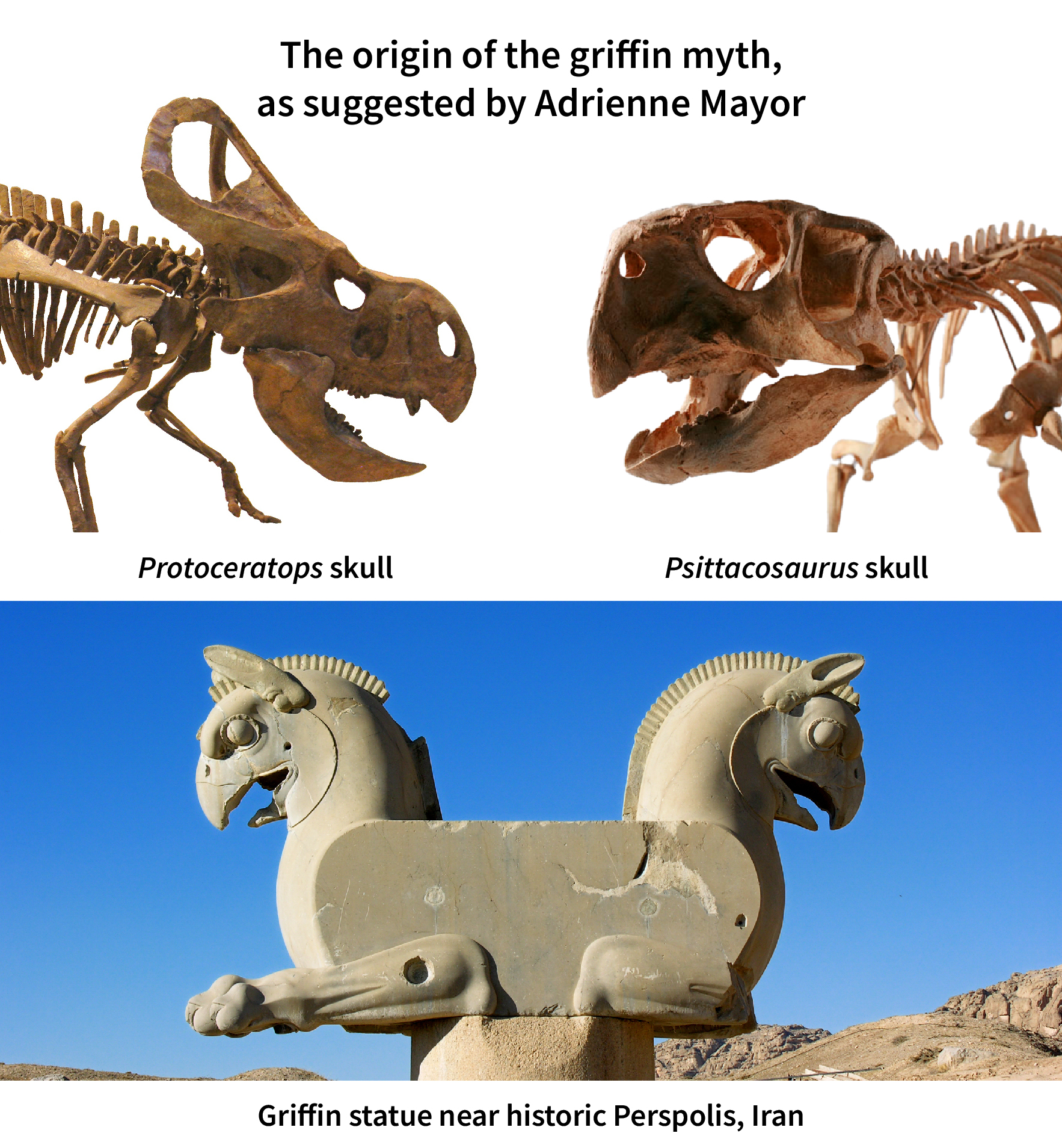 This work was created by merging three images.